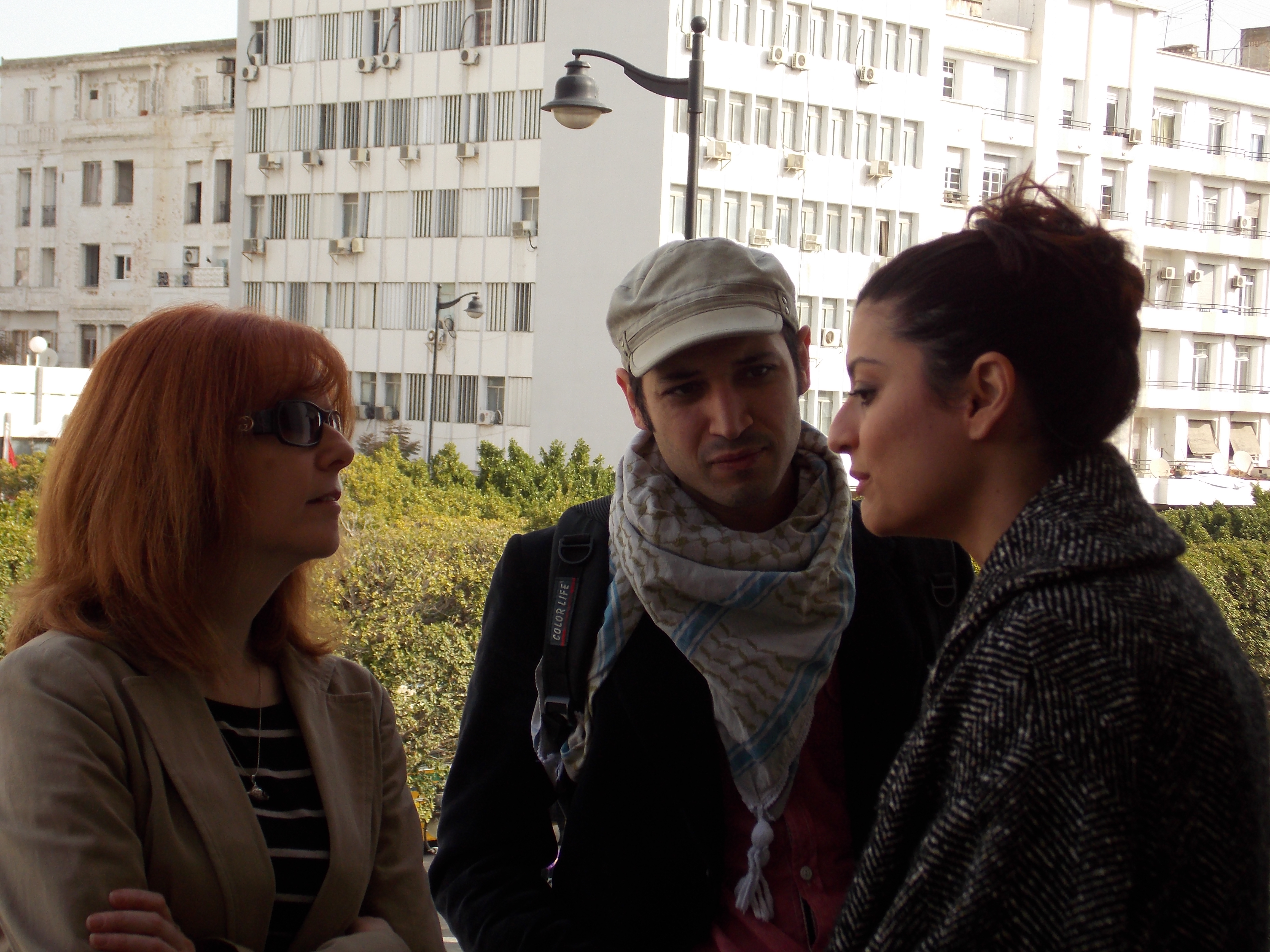 Actors of "Macbeth: Leila and Ben - A Bloody History" (Jawher Basti and Anissa Daoud) with representer of Royal Shakespeare Company RSC